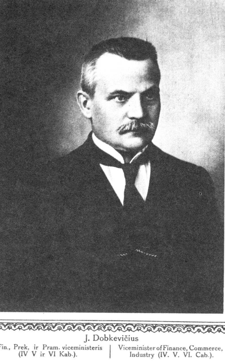 Jonas Dobkevičius, Lithuanian economist, banker, politician